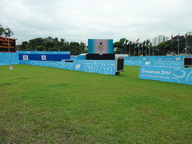 Kallang Field, the 2010 Summer Youth Olympics archery field.